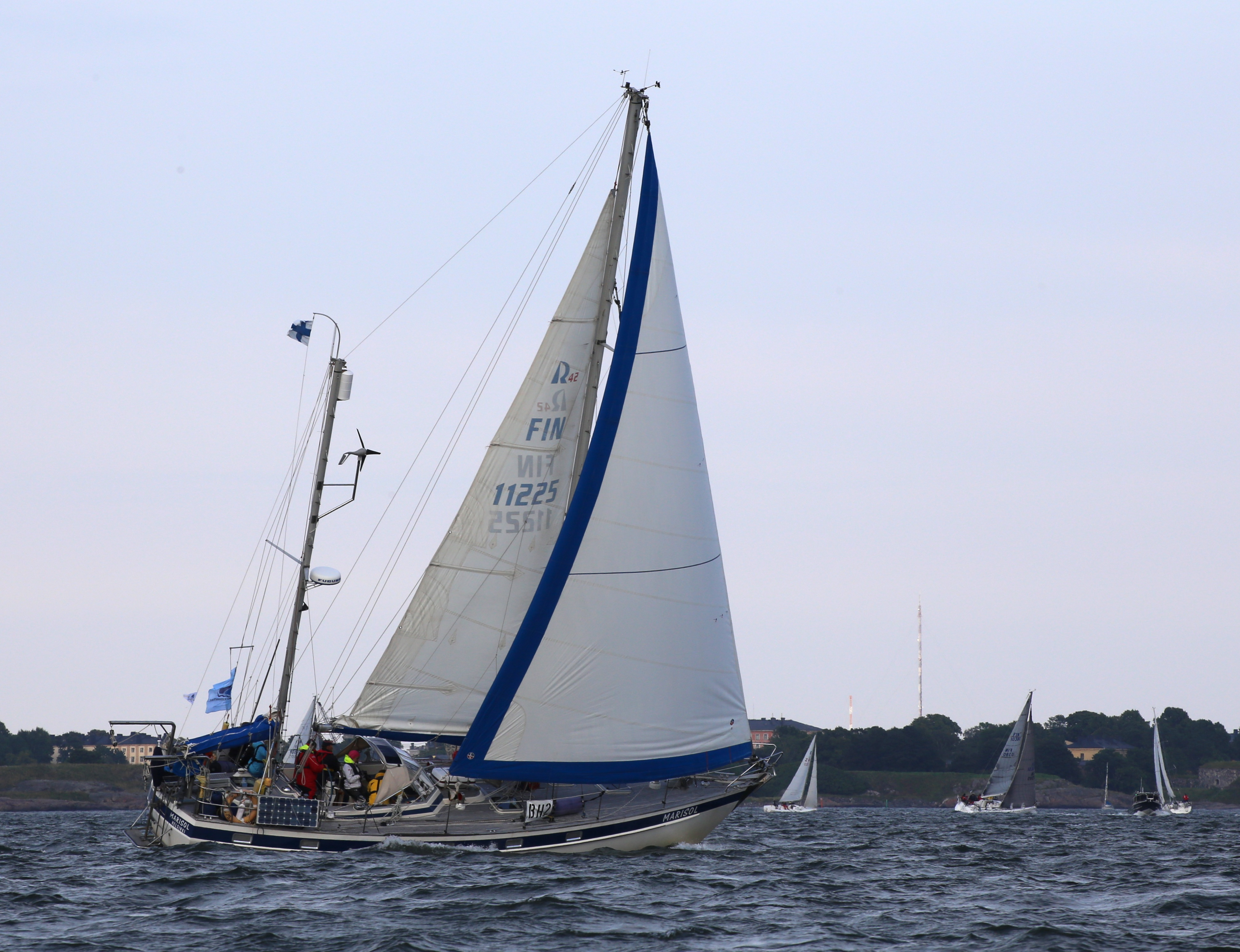 S/Y Marisol, FIN-11225, Hallberg-Rassy 42 ketch at the start of Helsinki - Tallinna Race 2016. The yacht shown is a model HR 42 "E" (designed by Olle Enderlein and built between 1980 and 1991).